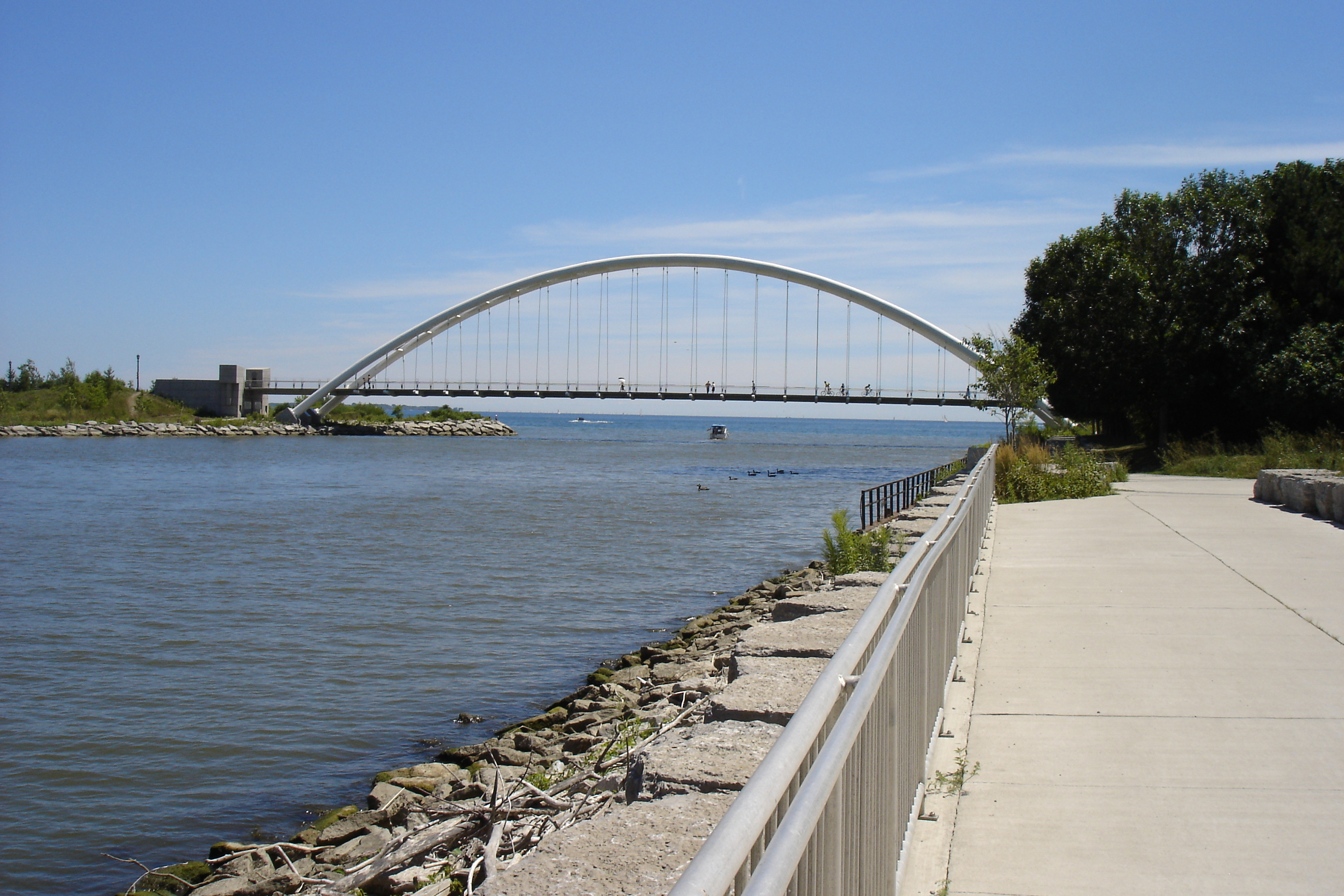 Mouth of the Humber River, Toronto, looking south into Lake Ontario. The walkway to the right of the camera's viewpoint follows the river north to the northern limits of Toronto proper, and connects to the Martin Goodman Trail which is running east-west over the pedestrian bridge seen here.